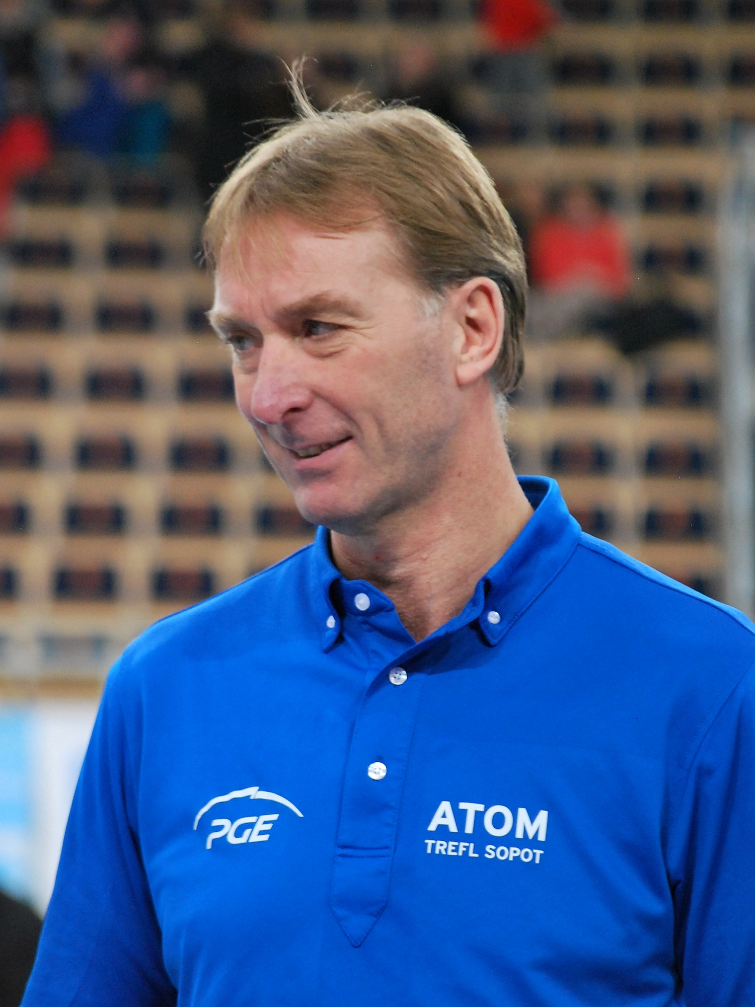 Teun Buijs, volleyball coach from the Netherlands